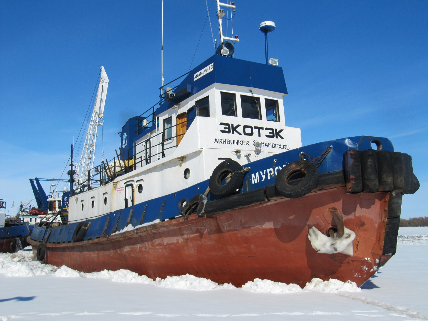 Muromets breaking ice in Zaton Layskiy SRZ, Laya River, Layskiy SRZ, Layskiy Dok, Arkhangelsk Oblast 10 April 2012